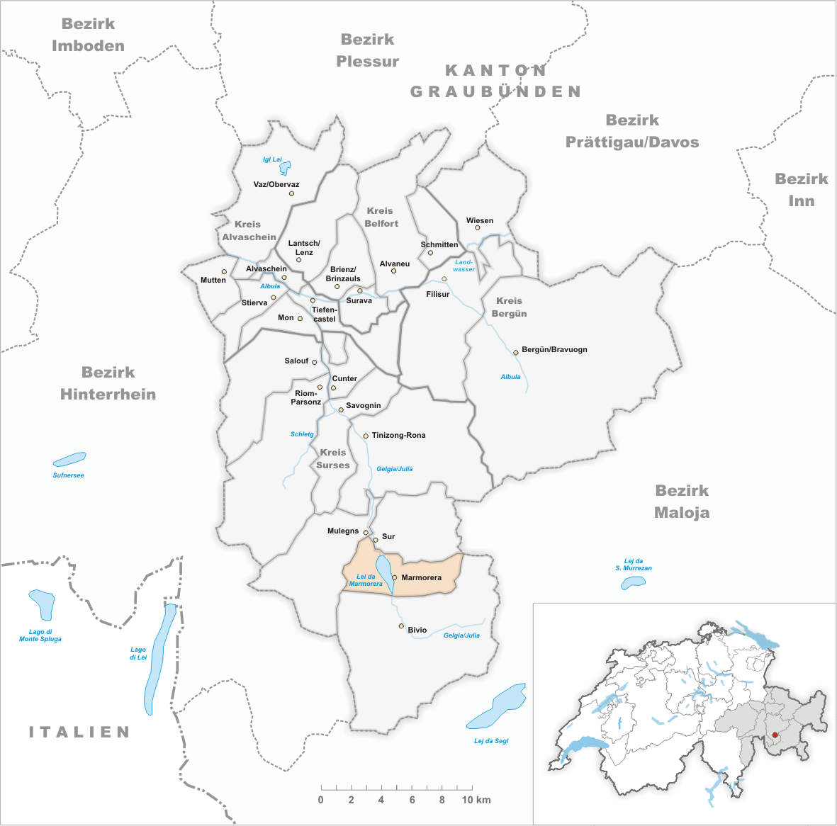 Municipality Marmorera